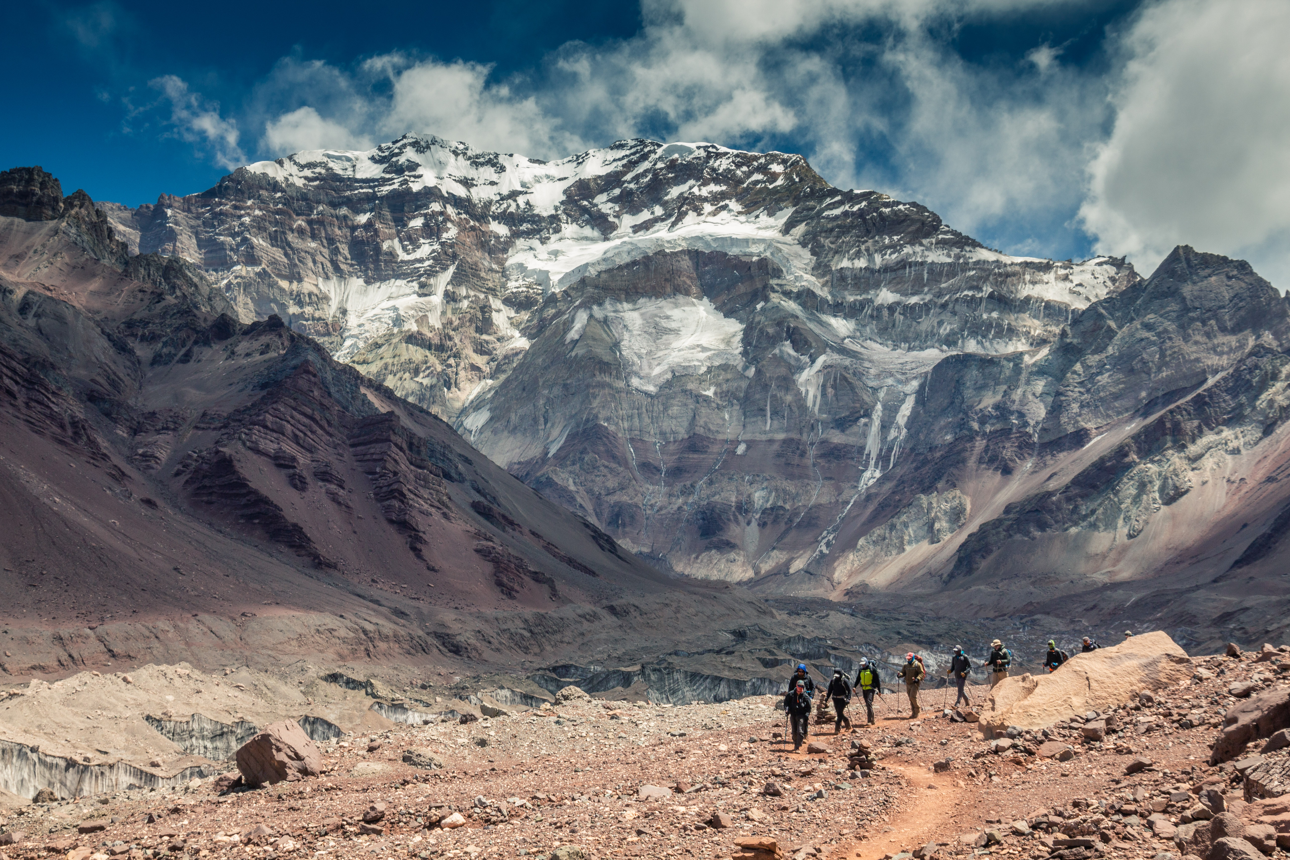 Mt. Aconcagua from south